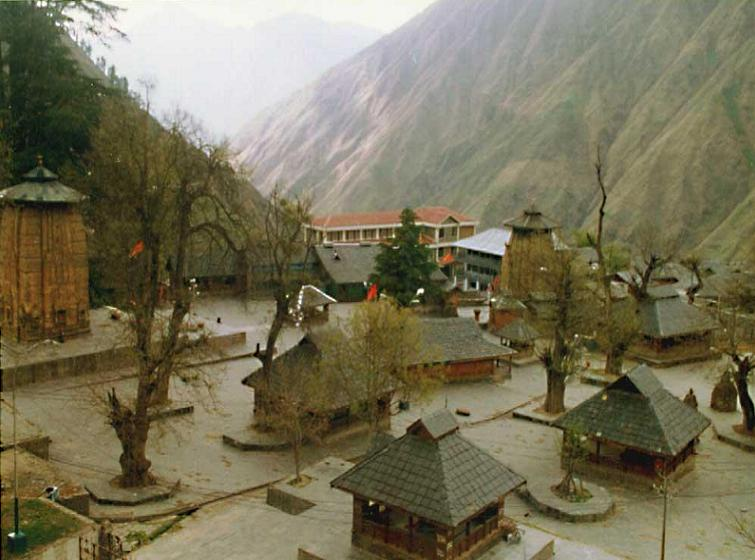 chaurasi mandir complex,Bharmour